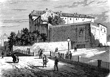 View of Cuesta de la Vega Street, in Madrid, Spain